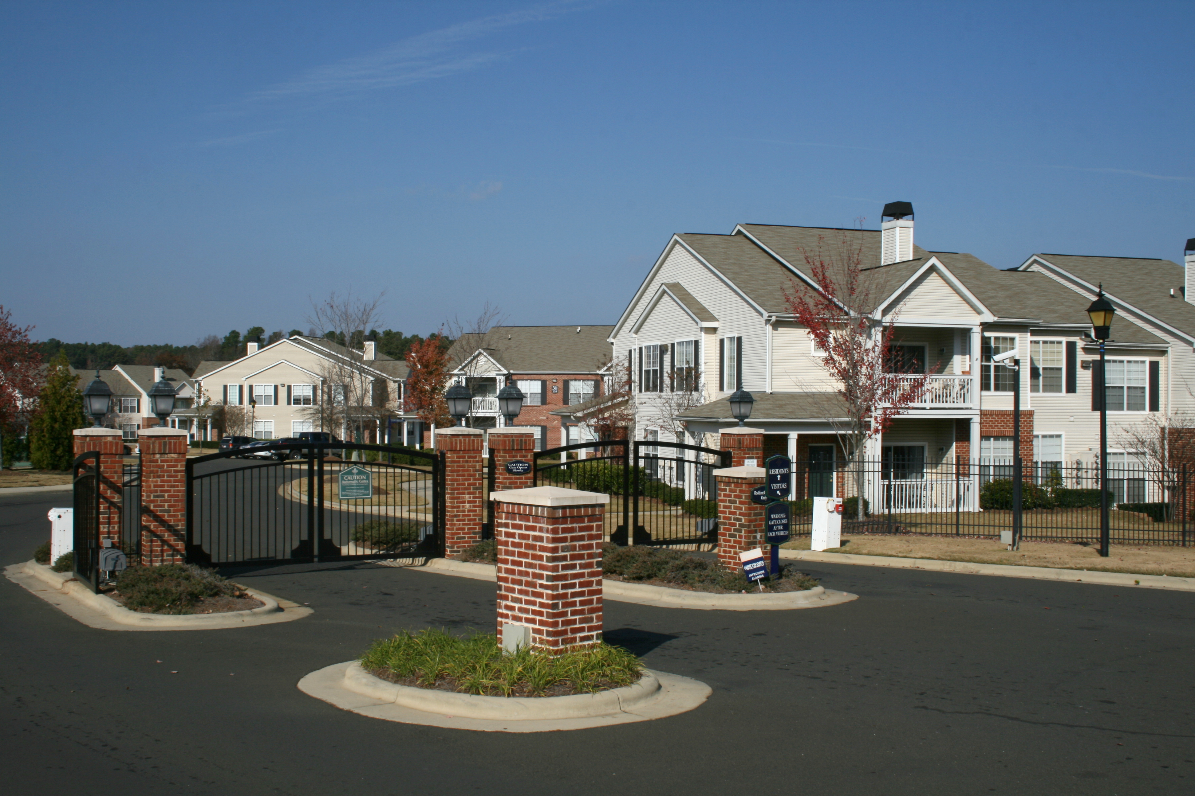 The security gate at the front entrance to North Pointe Commons, an apartment complex in Durham, North Carolina.